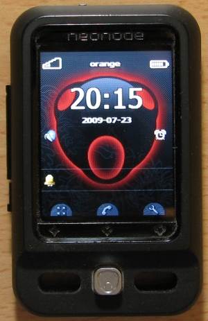 A picture of the Neonode N2 mobile phone.